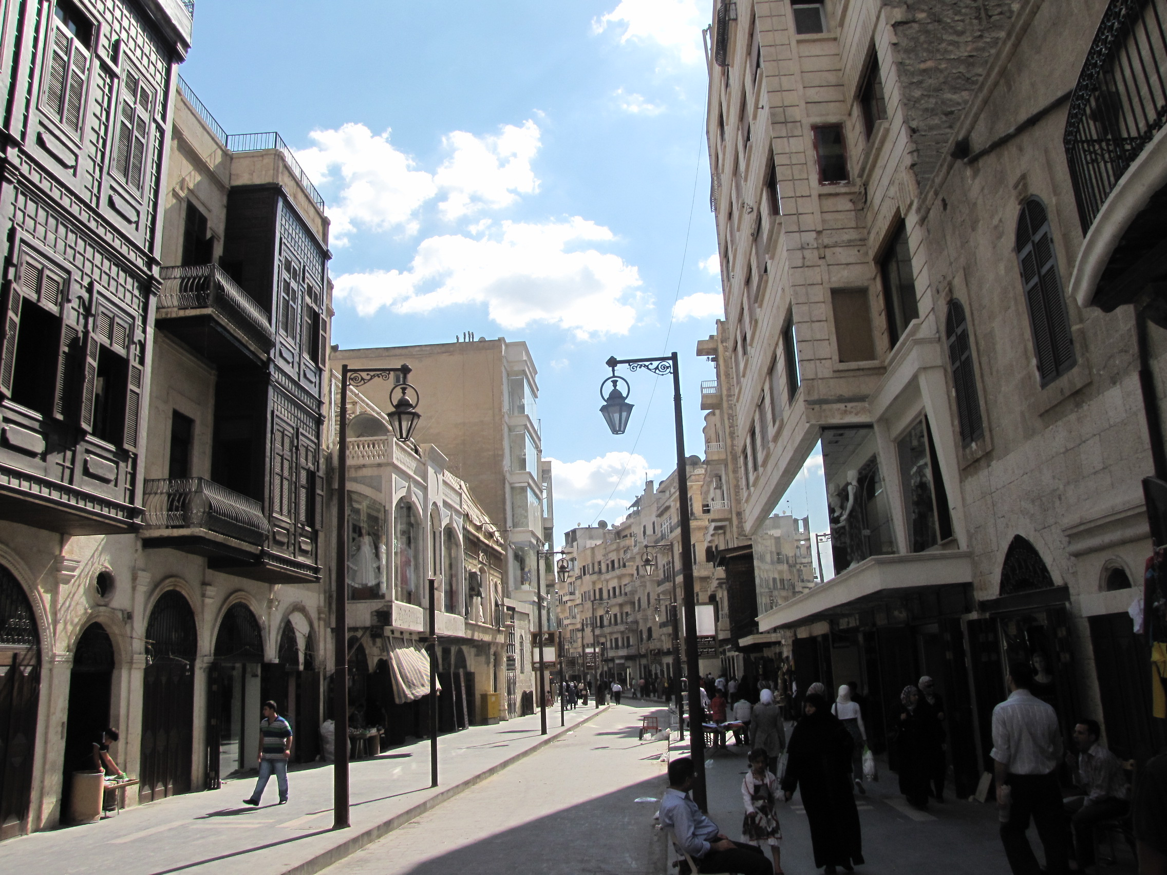 Tilel shopping street, Jdeydeh, Aleppo